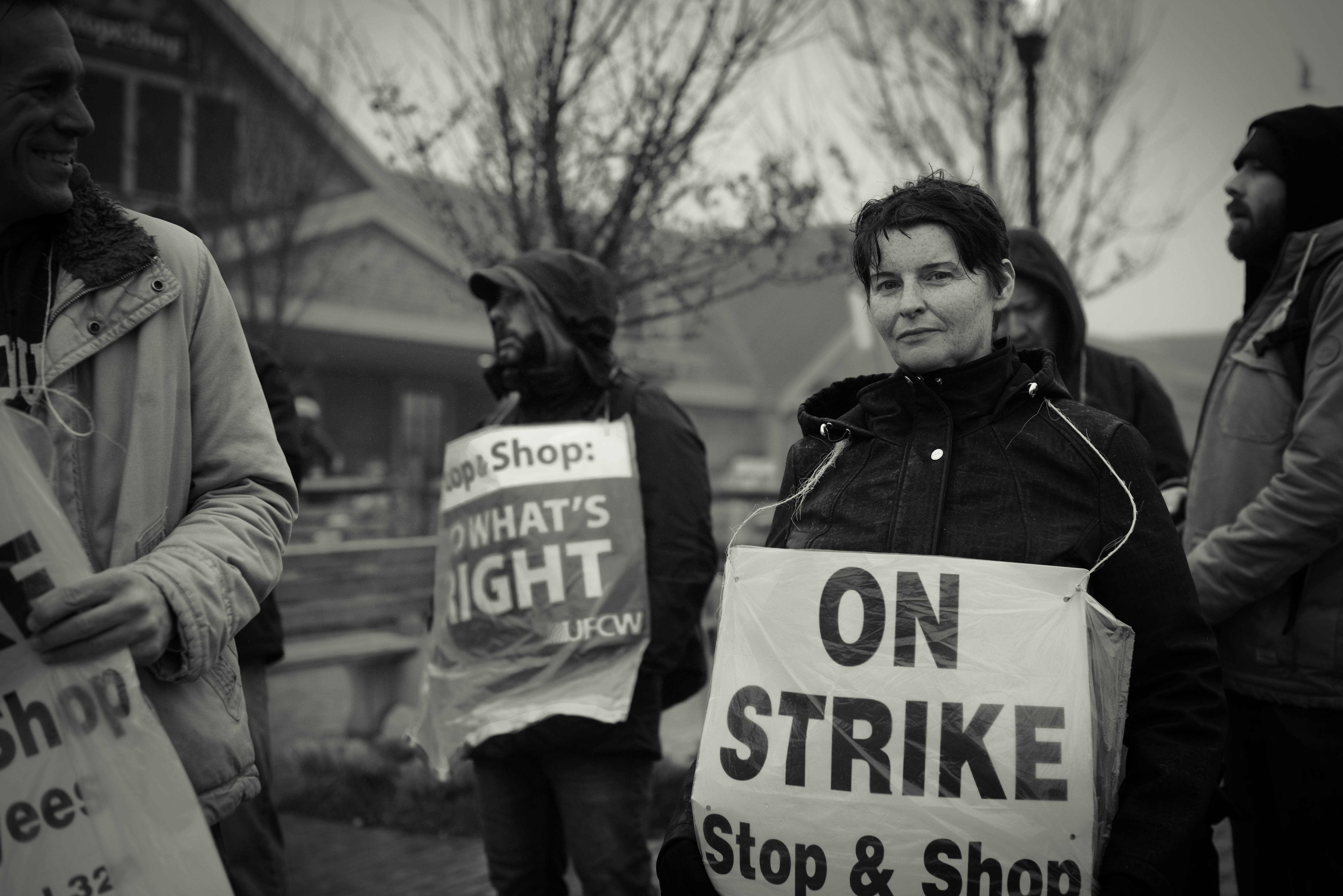 An employee of the Nantucket Stop & Shop stands in the rain shortly after local management forced strikers off the property.